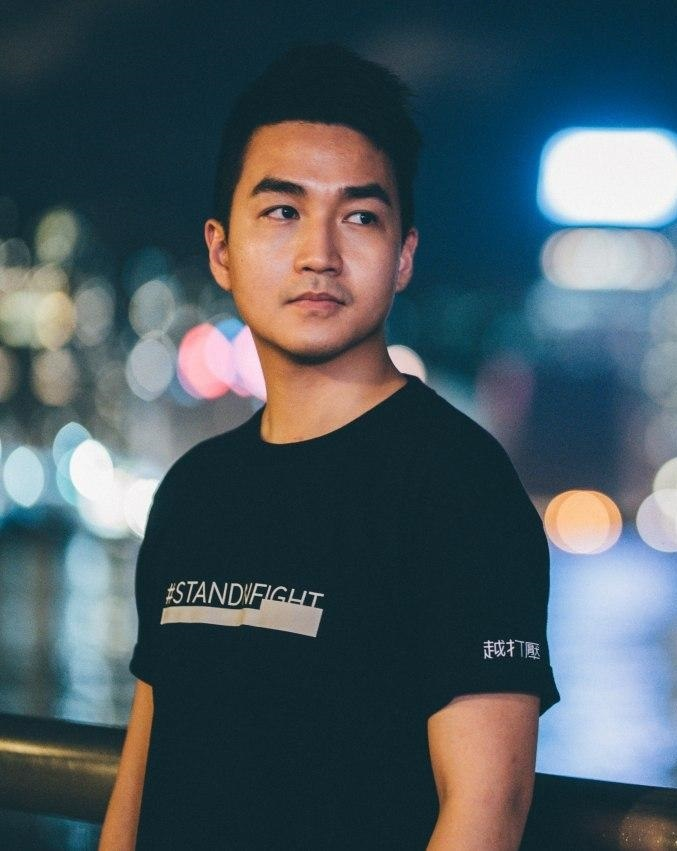 Profile picture of Tat Cheng